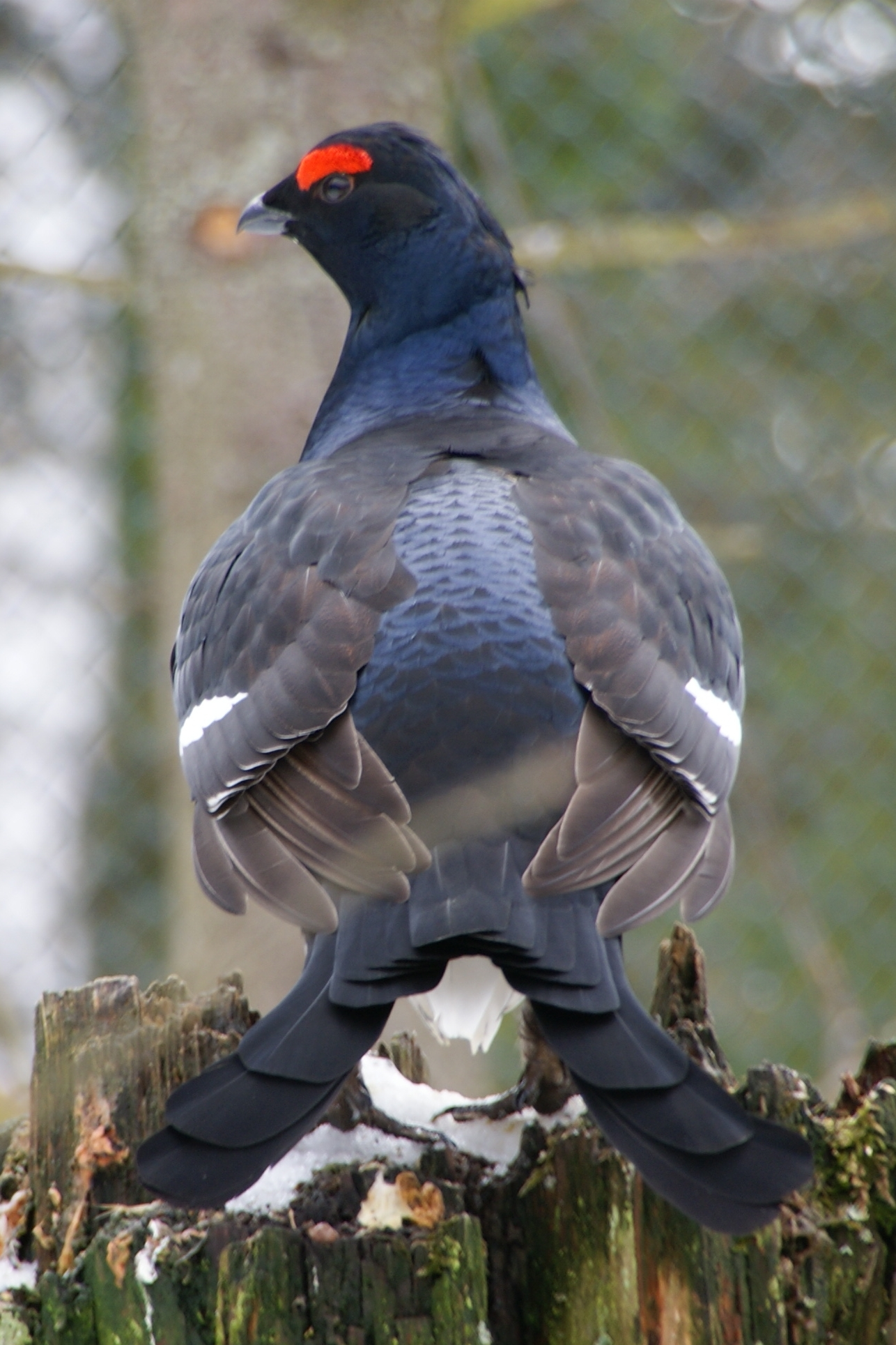 Black Grouse in an open-air enclosure at the National Park Bavarian Forest